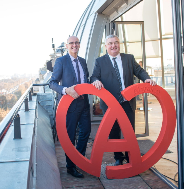 Frédéric Bierry lors de l'inauguration de la Maison de l'Alsace à Paris